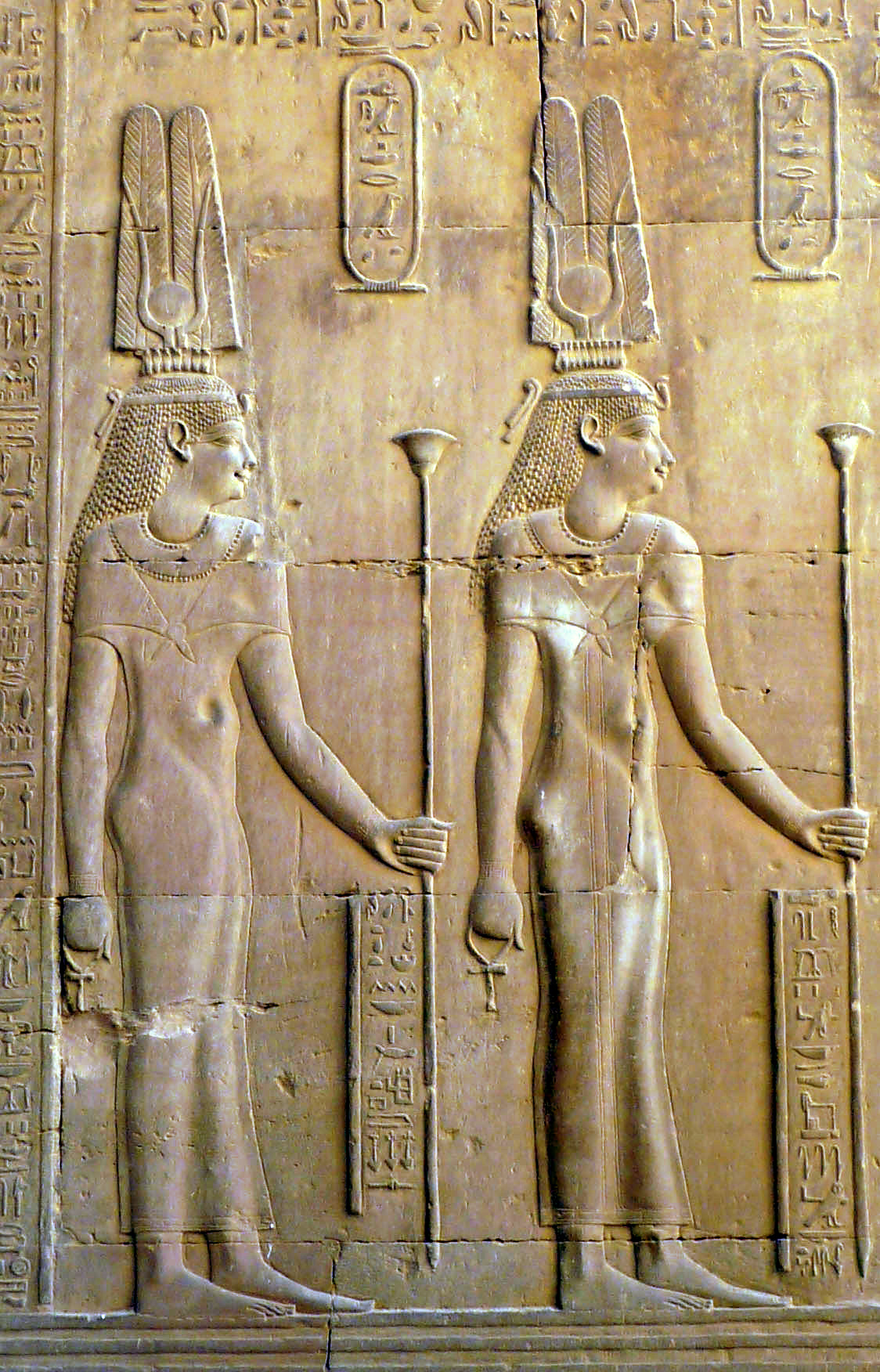 Cleopatra II and Cleopatra III (right to left), Kom Ombo Temple, Egypt